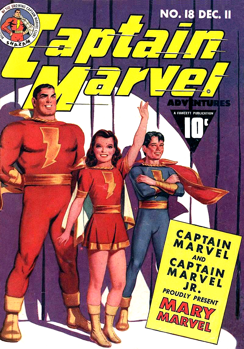 First appearance of Mary Marvel on the cover of Captain Marvel Adventures number 18 (Fawcett Comics), December 1942), Artwork by Charles Clarence Beck, one of a small number of painted covers produced for this series.